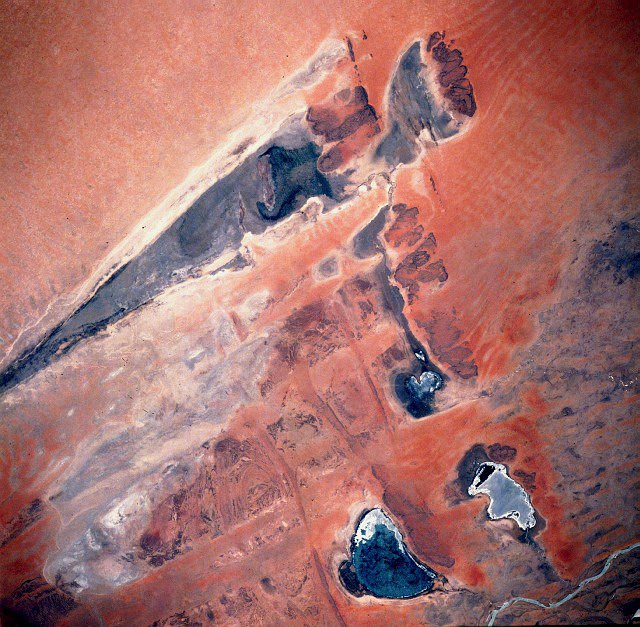 Lake Faguibine, Lake Komango, Lake Tele, Lake Oro, Lake Fati, Mali - April 1991